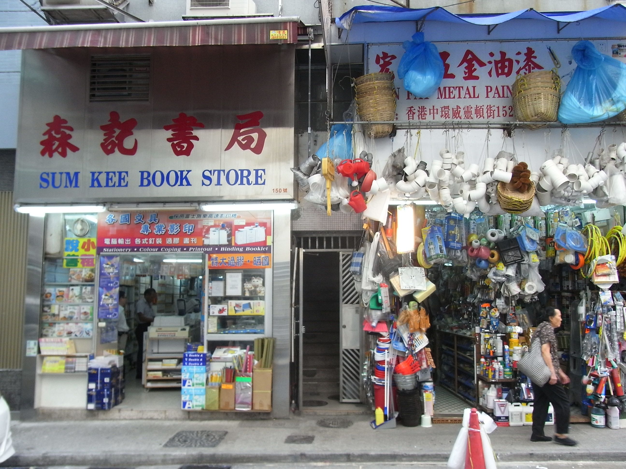 中環 威靈頓街, Wellington Street, Central, Hong Kong